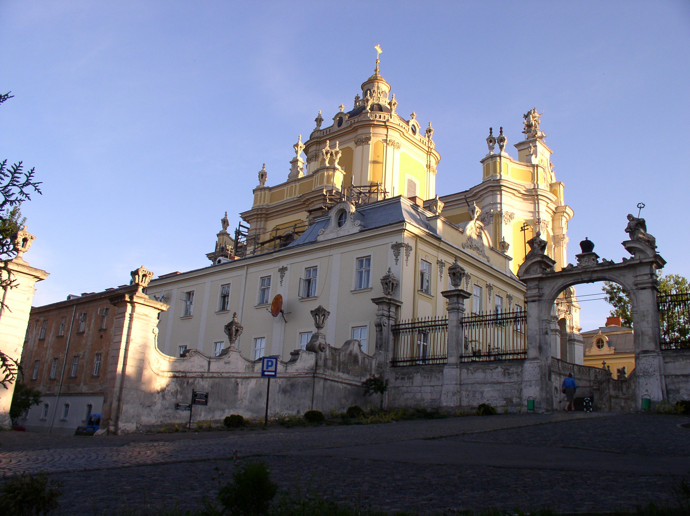 Cathedral of Saint George. Lviv, Ukraine.